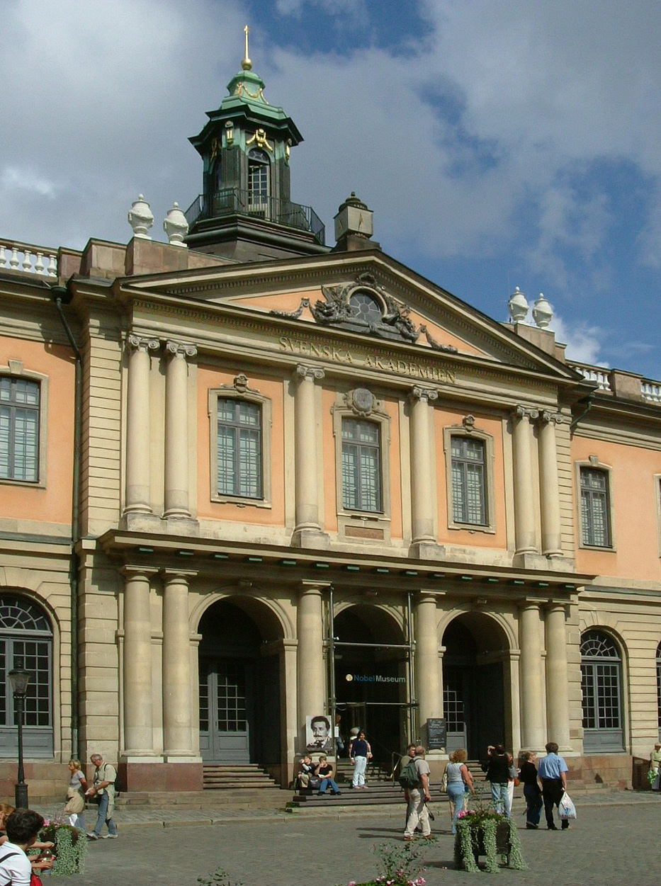 Svenska Akademien building, Stockholm , Sweden